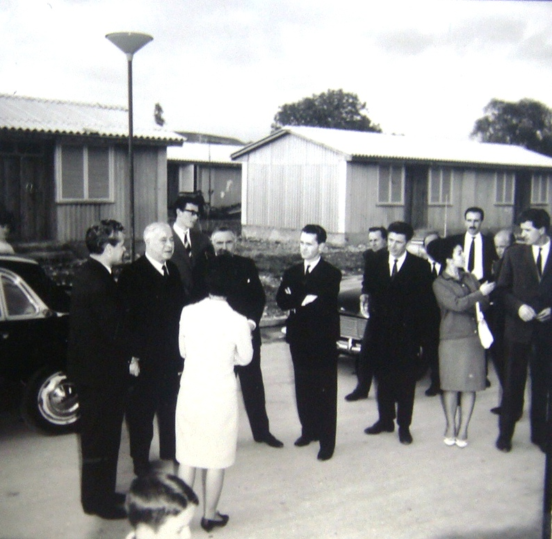 1963 Skopje earthquake: Formal delivering in the use of barracks in the settlement Taftalidze, gift from Italy (18 May 1964) This media file is produced by Wikipedian in Residence in Category:Wikipedian in Residence at DARM in 2016.